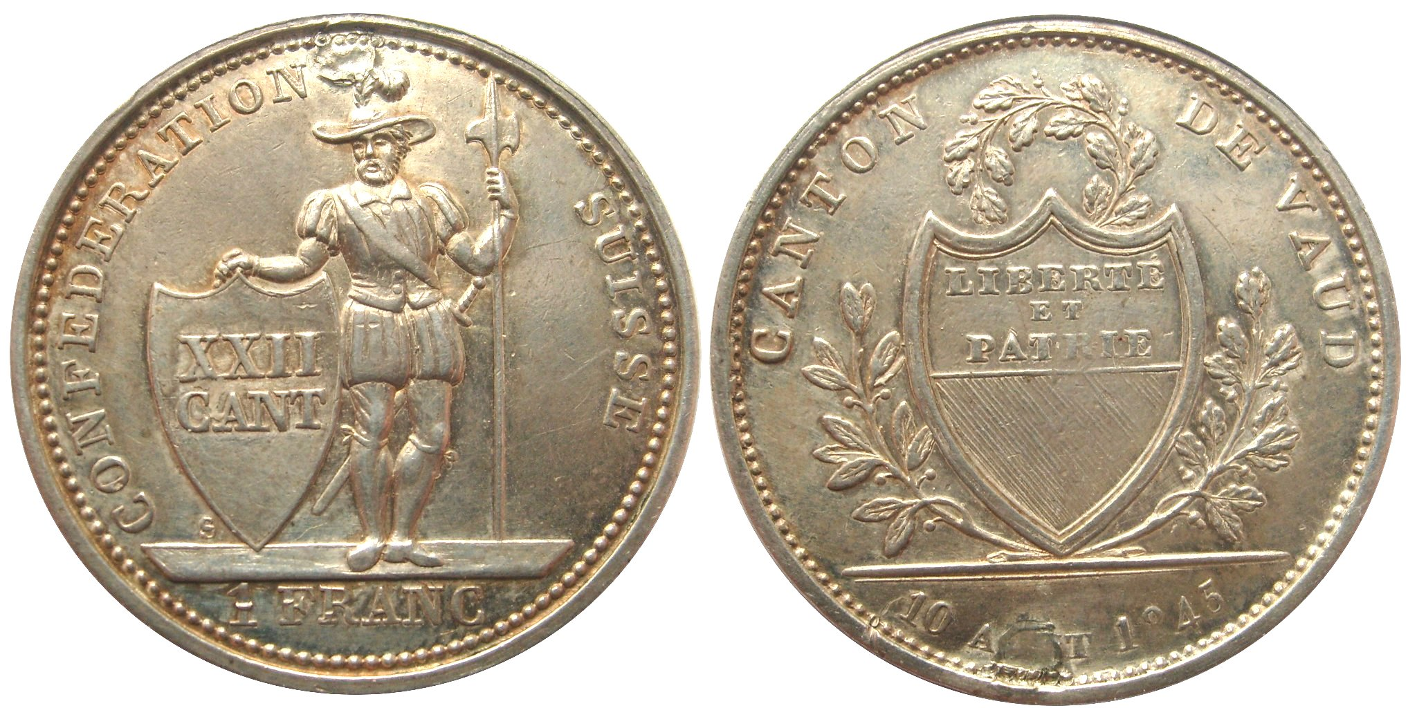 1 franc, Canton of Vaud, Switzerland, 1845